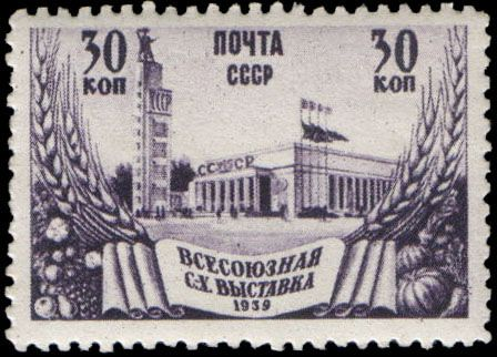 Stamp of the USSRː Главный павильон выставки. Seriesː The All-Union Agricultural Exhibition (VSKhV) in Moskow, USSR, "New in the Agriculture"